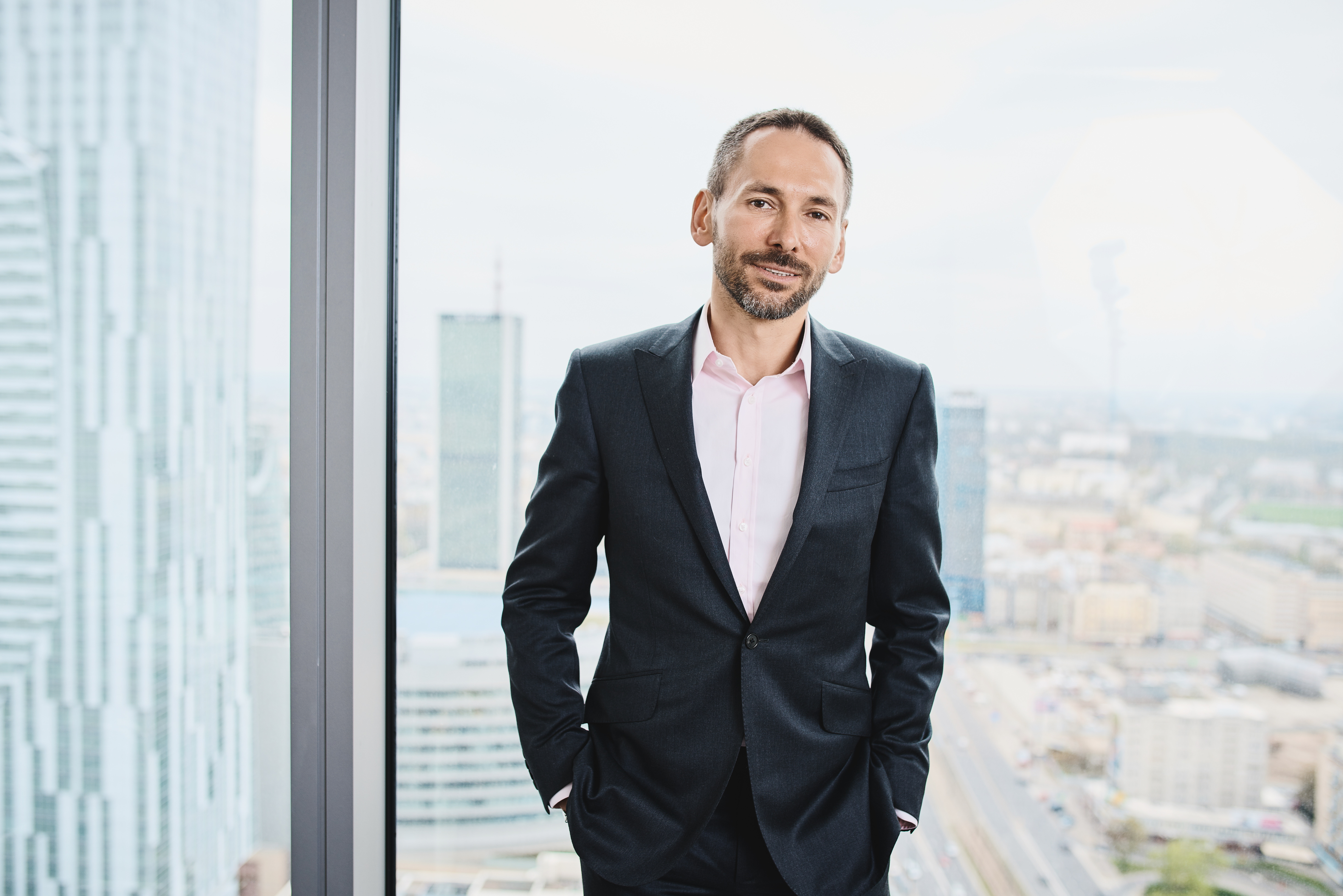 Tomasz Czechowicz